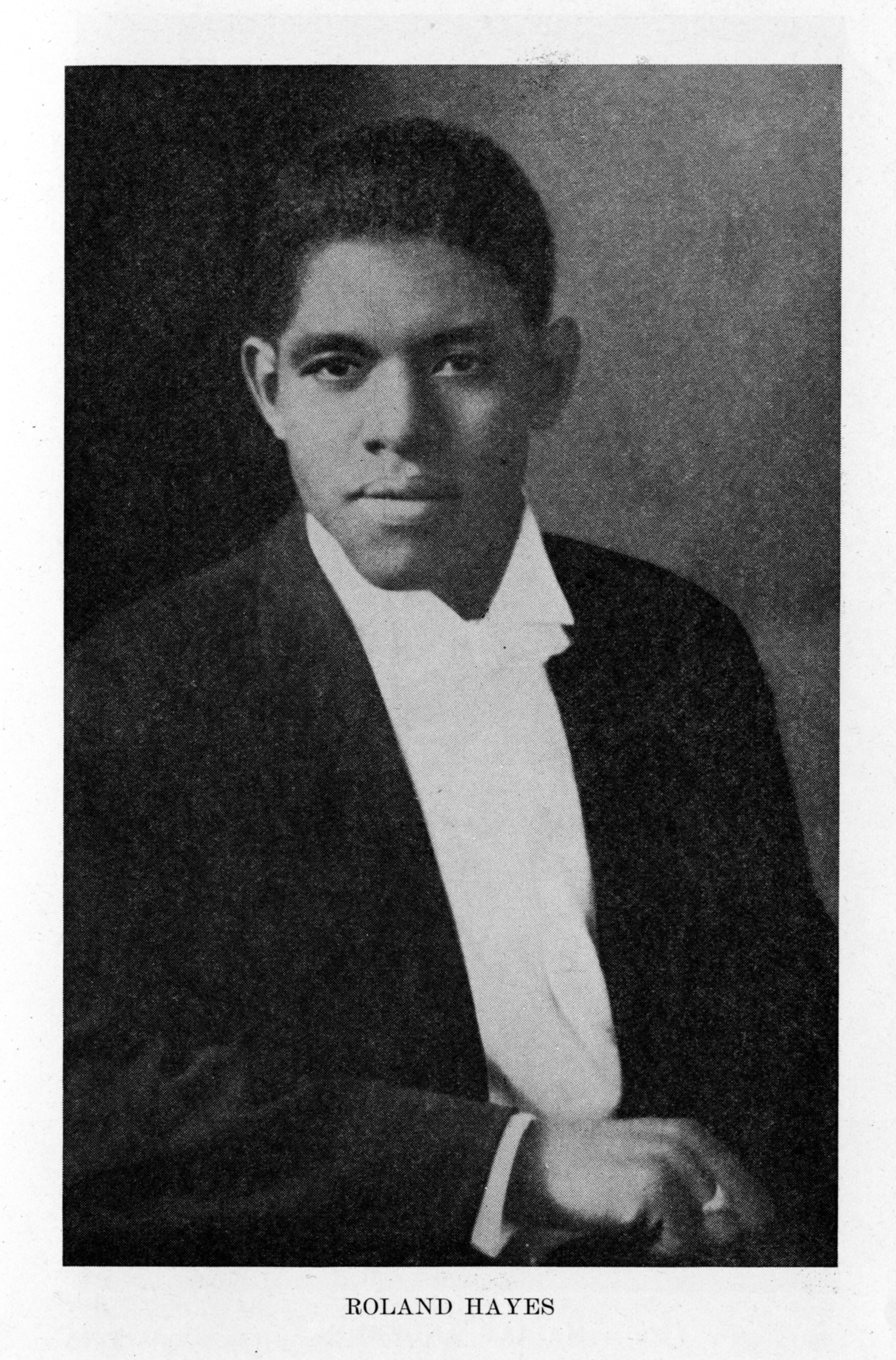 Photograph of Roland Hayes